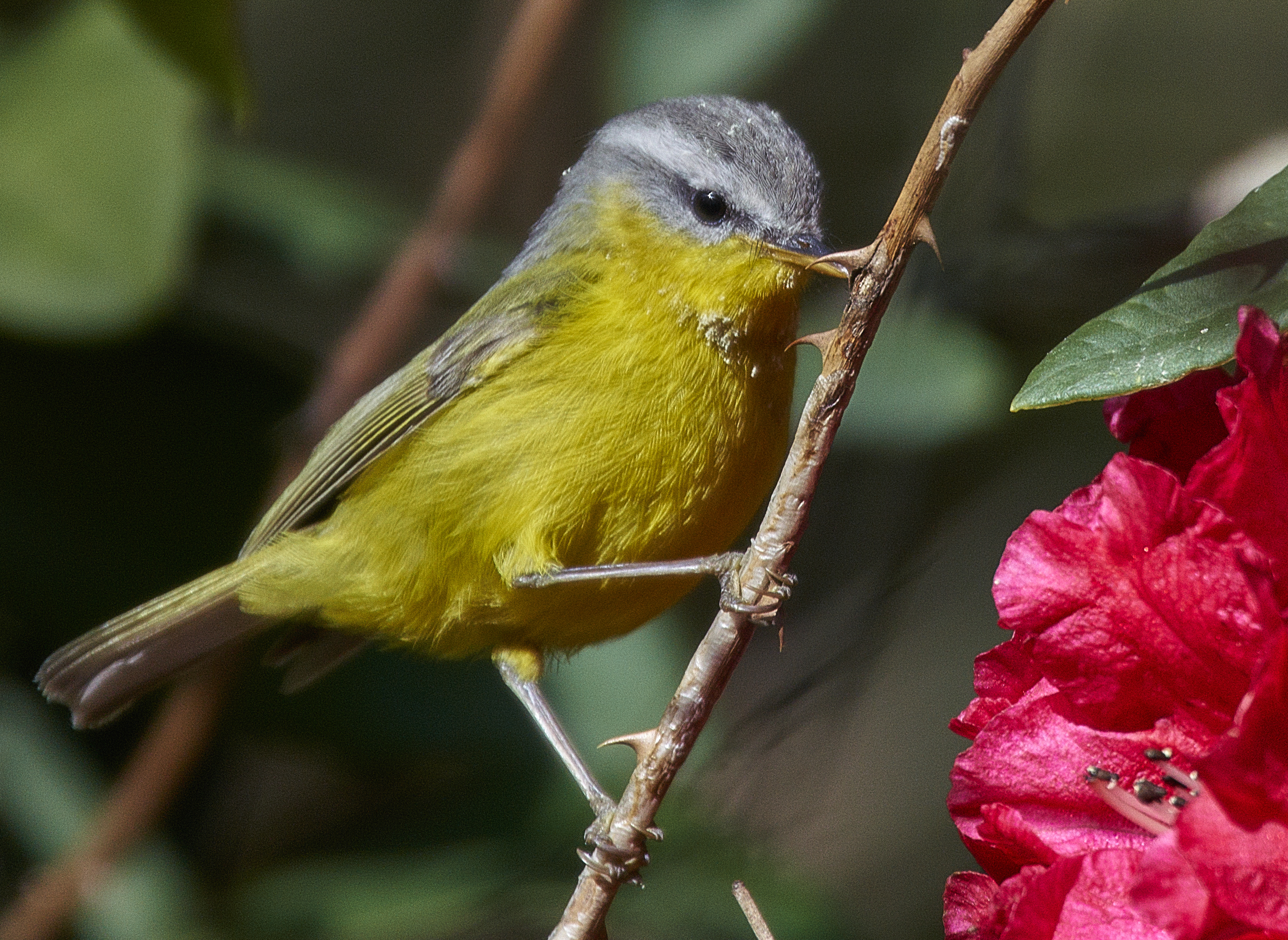 The grey-hooded warbler at Deoria Tal